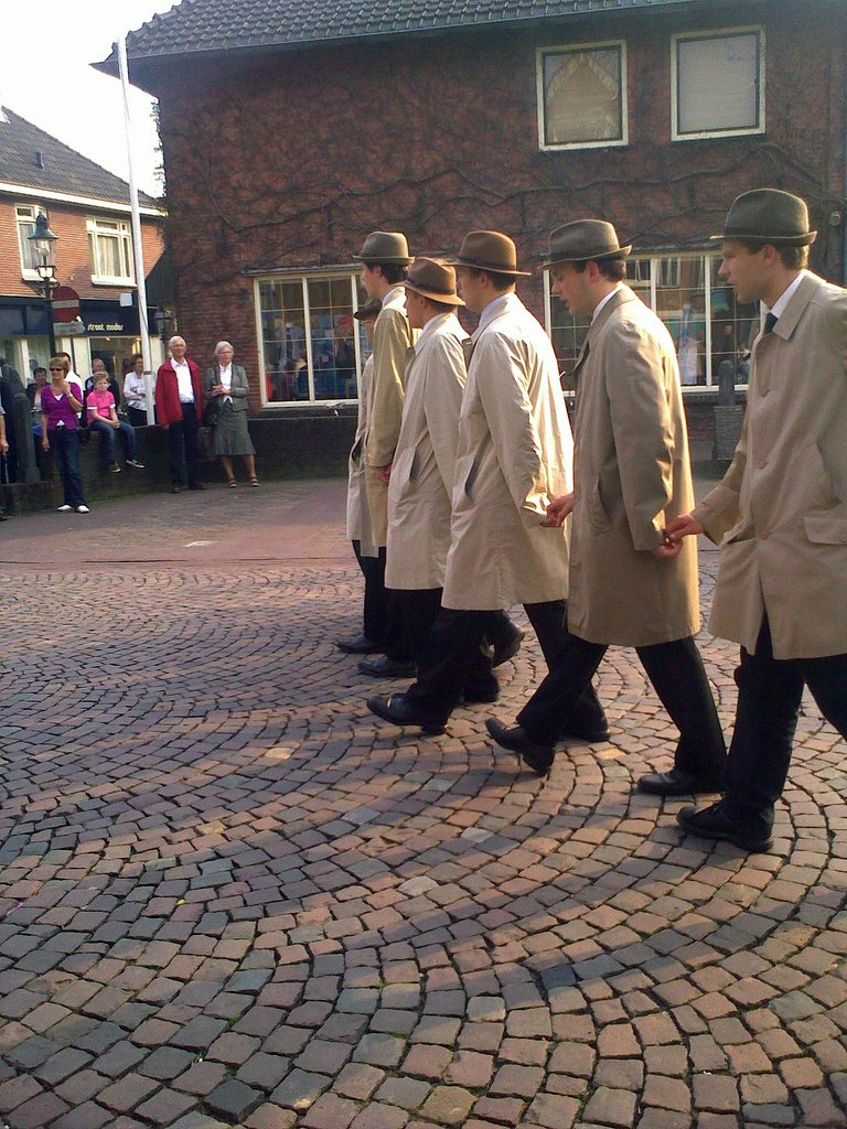 Vlöggelen, an Easter tradition in Ootmarsum, The Netherlands. Pictured are the Poaskearls, who lead the procession through Ootmarsum.